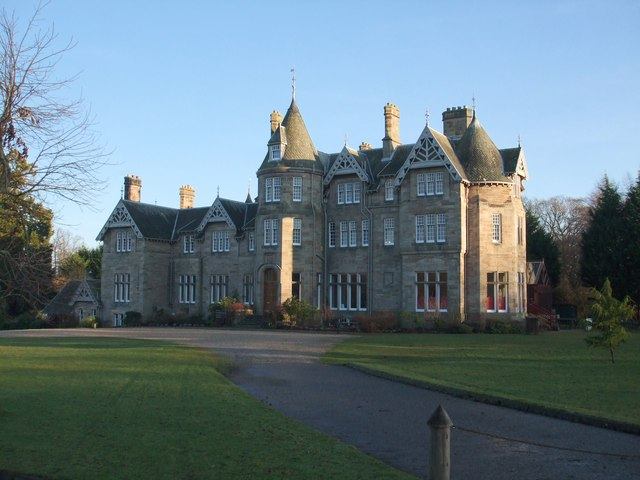 Vogrie House In the 1870's, the Perth whisky family, the Dewars, commissioned the Perth architect Andrew Heiton to build a mansion on their estate. The estate was sold in 1924 becoming an outstation for the Edinburgh Mental Hospital. In the 1960's, during the period of the Cold War, it was the Civil Defence HQ for Midlothian and is now the centre for the popular Vogrie Country Park with extensive woodlands, miles of paths and includes a golf course. The Dewar name is however continued in the village of Dewartown nearby.